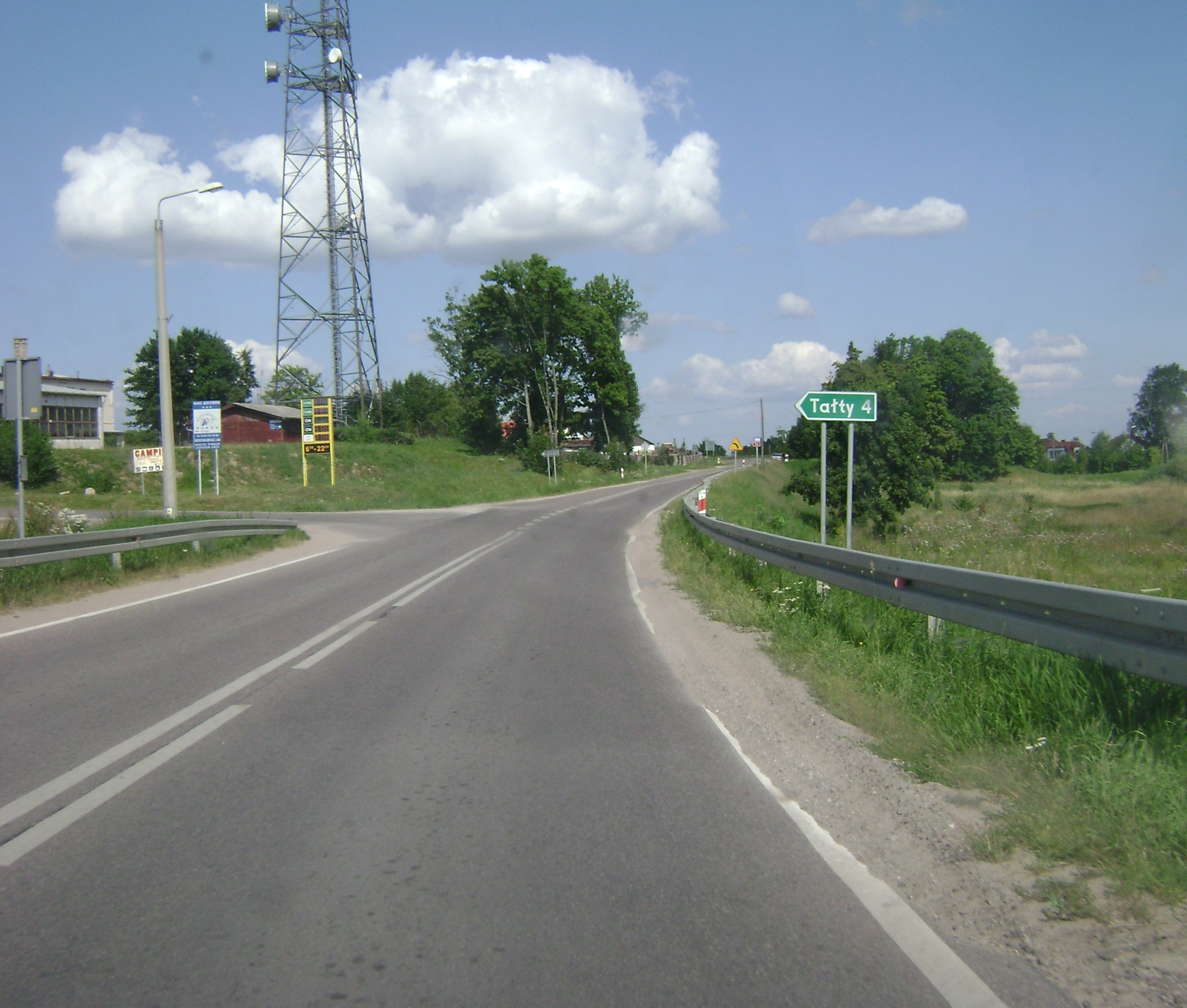 Poland. Mikołajki. National road 16